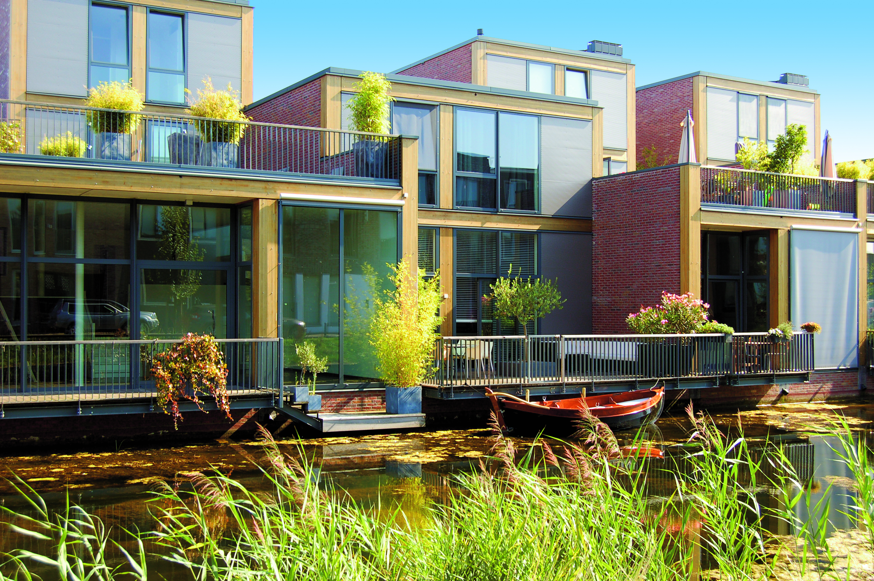 Wonen aan het water